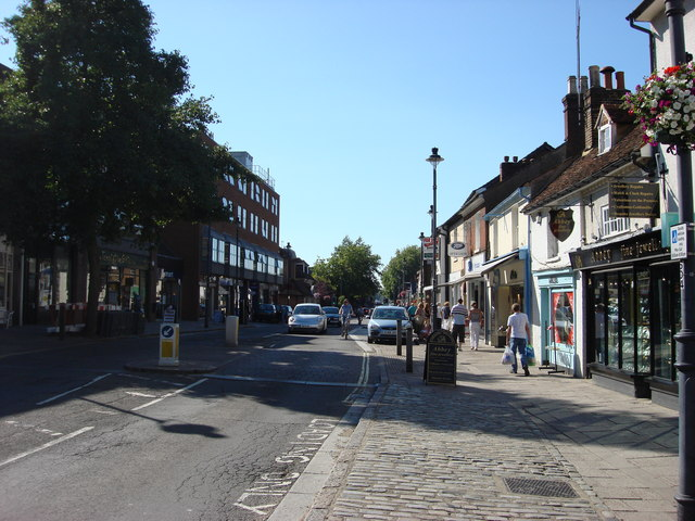 High Street - Berkhamsted, Hertfordshire, Great Britain.